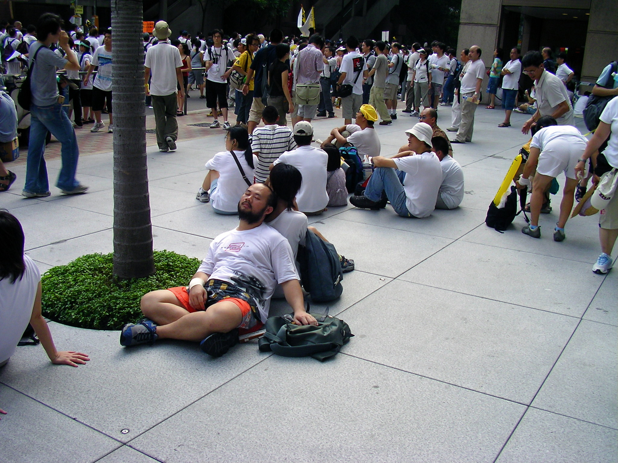 July 1 march in Hong Kong in 2004.